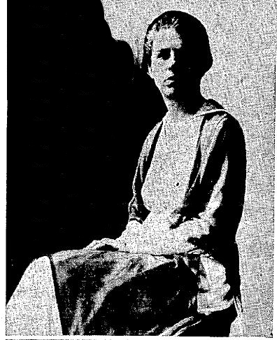 Helen Lyman commonly known as Helen Hoyt or Helen Hoyt Lyman (January 22, 1887–August 2, 1972) was an American poetess.